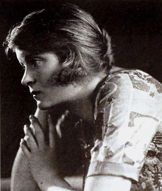 Still from the American drama film The Little 'Fraid Lady (1920) with Mae Marsh, on page 95 of the December 11, 1920 Exhibitors Herald.